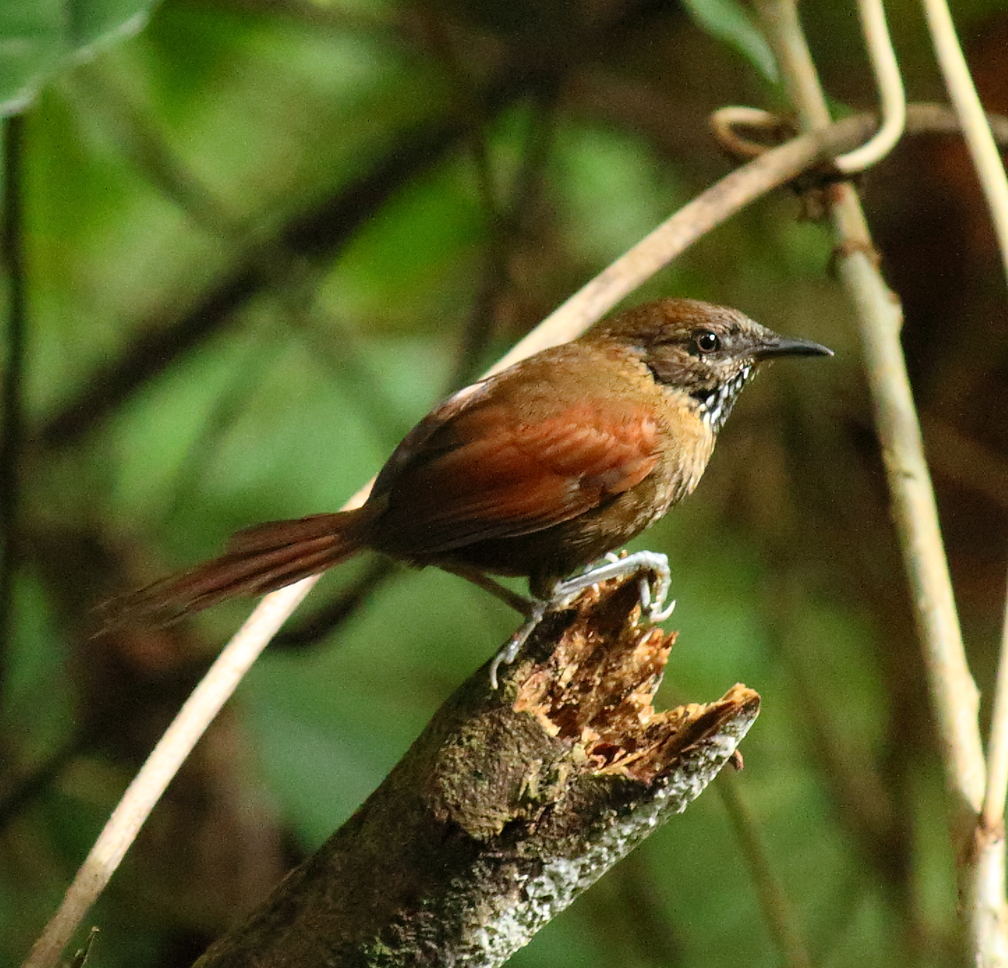 Stripe-breasted spinetail Gomez-Aripo